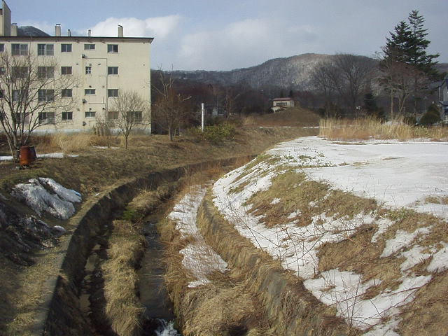 Pinayoro River. Noboribetsu, Hokkaidō prefecture, Japan.